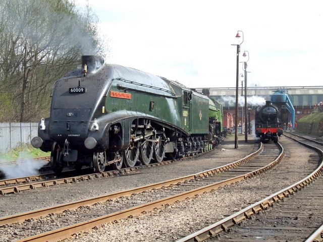 Roundhouse, Barrow Hill Class A4 60009 Union of South Africa shares the yard with Class A2 60532 Blue Peter and Class K1 62005. The A4 is reversing the A2 down the yard.